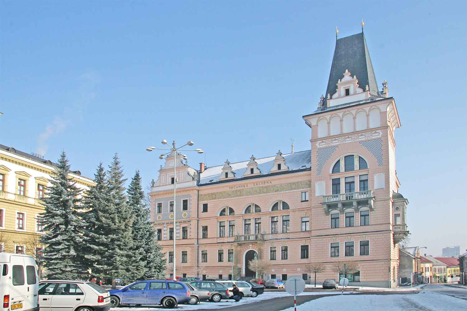 Building of former bank in Přelouč, Czech Republic. Architect: Rudolf Kříženecký.